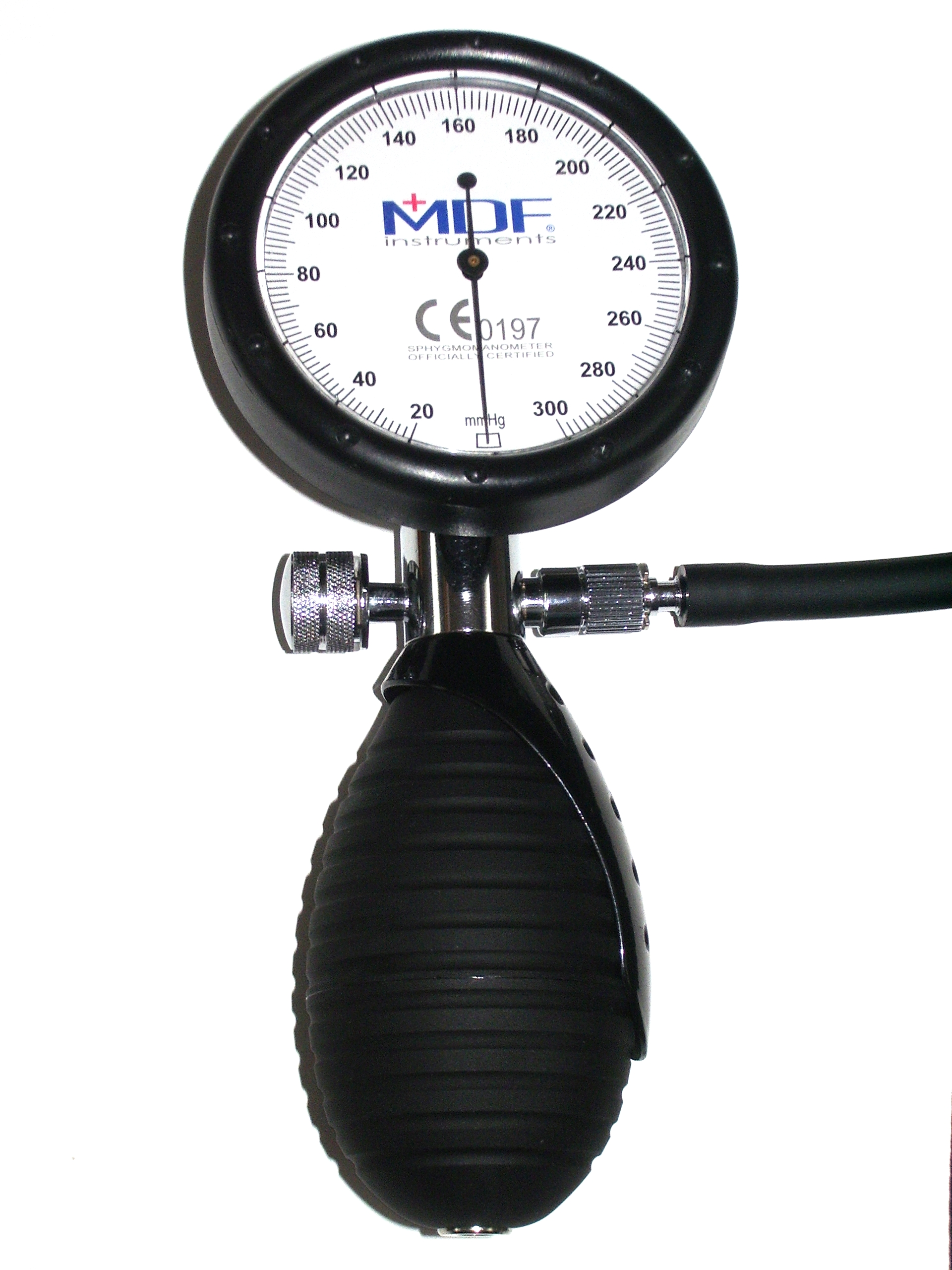 Sphygmomanometer, used for measuring blood pressure.